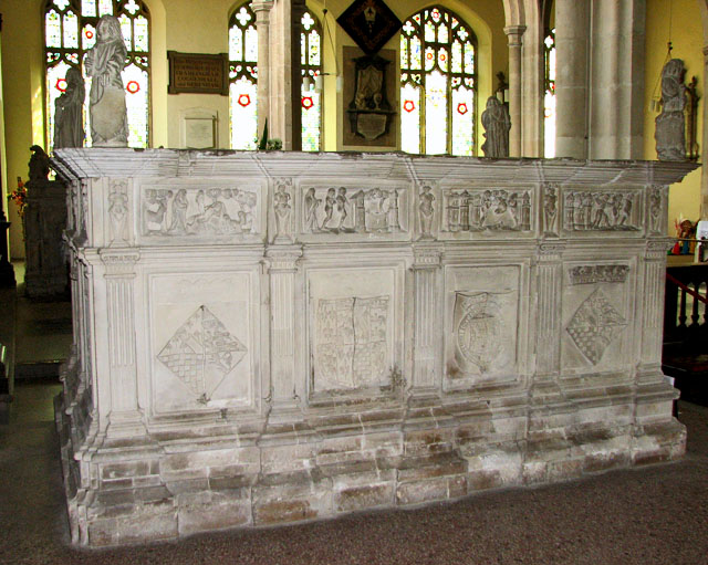 St Michael's church in Framlingham - Henry Fitzroy tomb